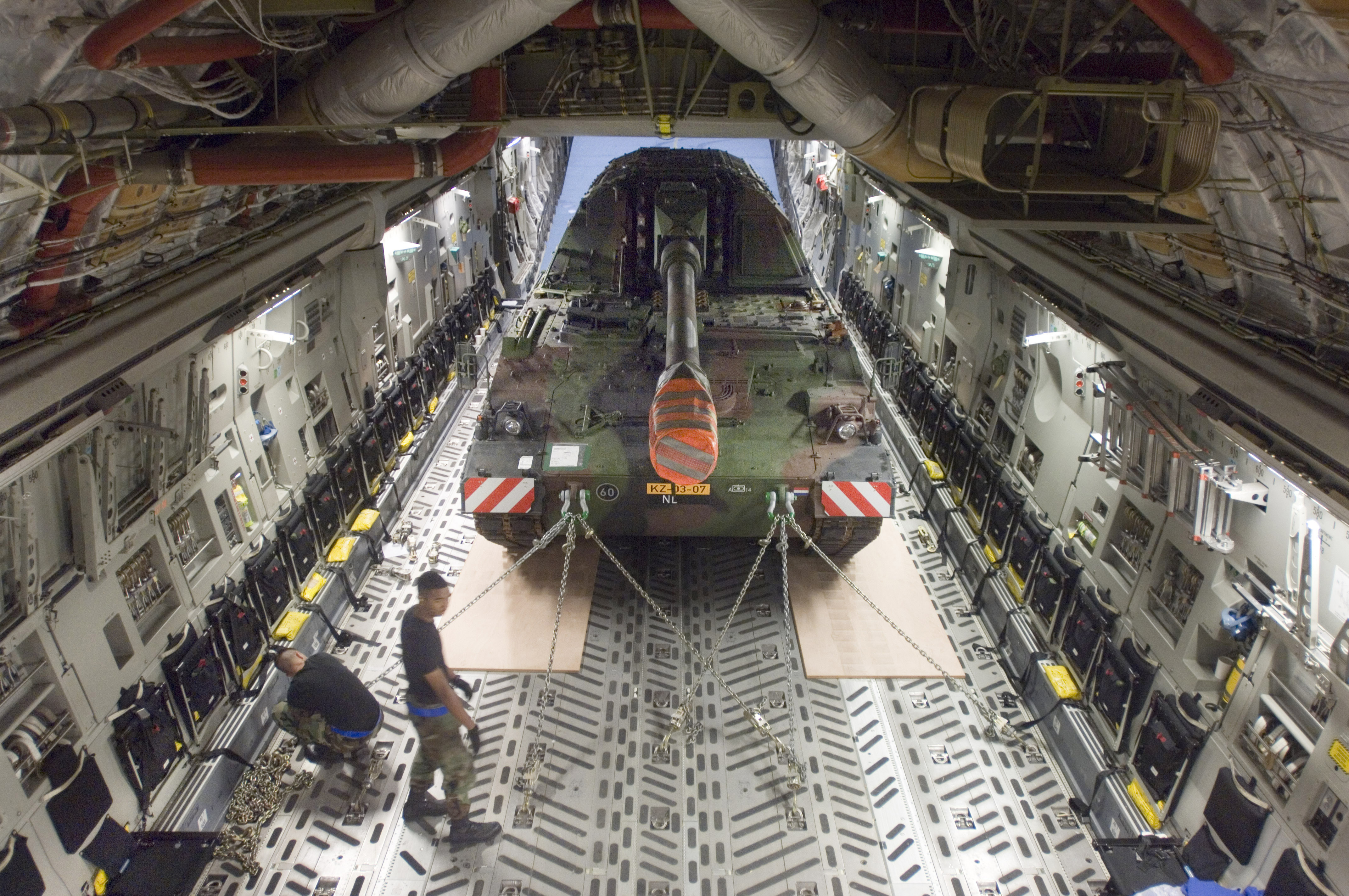 A Howitzer 2000 tank from the Netherlands is fastened to the floor of a C-17 Globemaster III aircraft at Ramstein Air Base, Germany, Sept. 6, 2006. The C-17, from the Charleston Air Force Base, S.C., is transporting the 60-ton tank to Afghanistan.